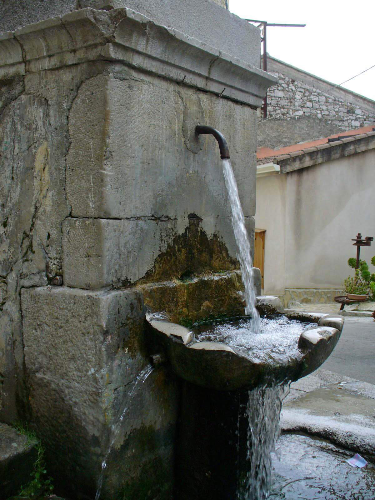 Hora e Arbëreshëvet, Sicily. Fountain